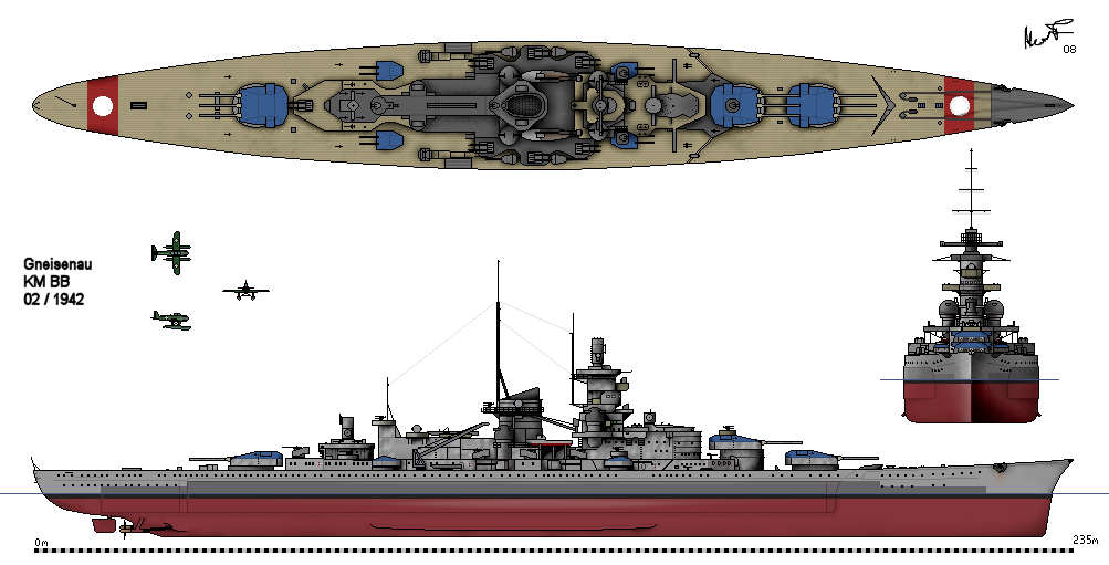 Drawing of german battleship Gneisenau 1942. Camouflage as documentated for operation Cerberus in 02/1942.